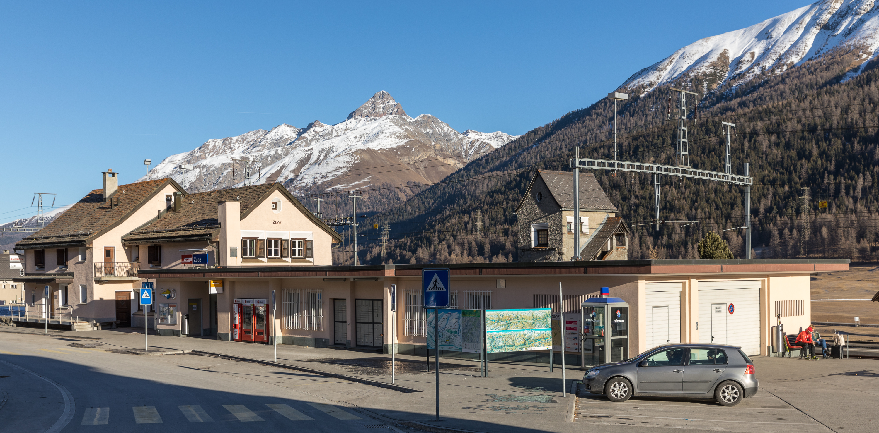 Zuoz railway station, Engadina, canton of Grisons, Switzerland